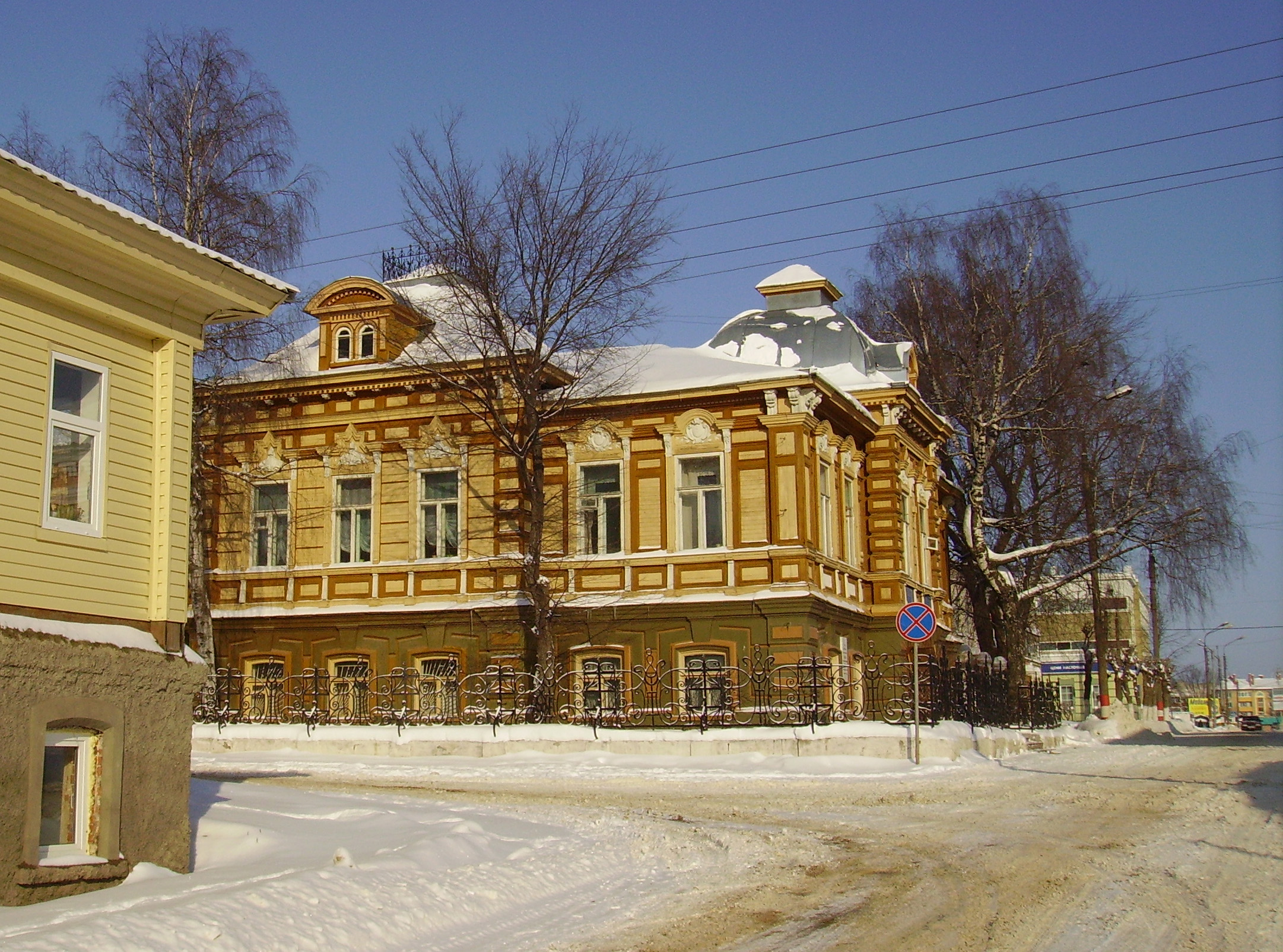 Bor, Nizhny Novgorod Oblast. Former house of the merchant Starov (built in 1912), now housing the Museum of Local History.